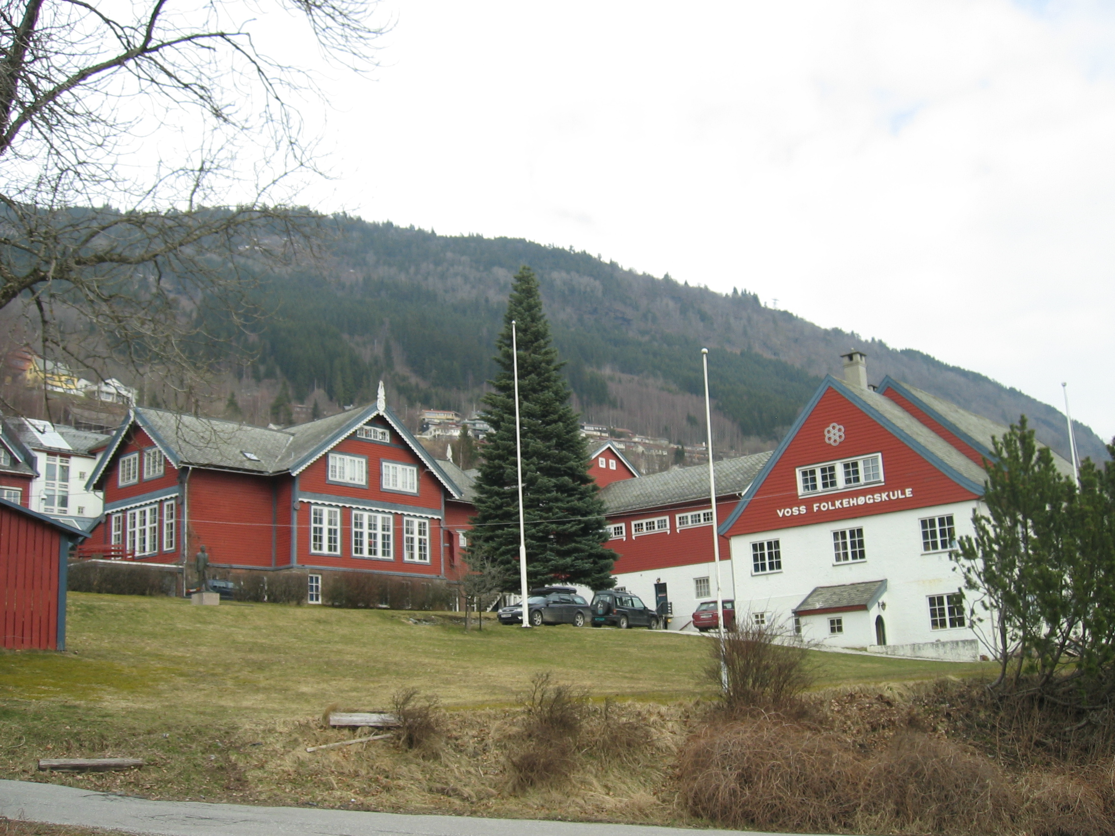 Voss Folkehøgskule på Voss. Voss Folkehøgskule, Voss, Norway